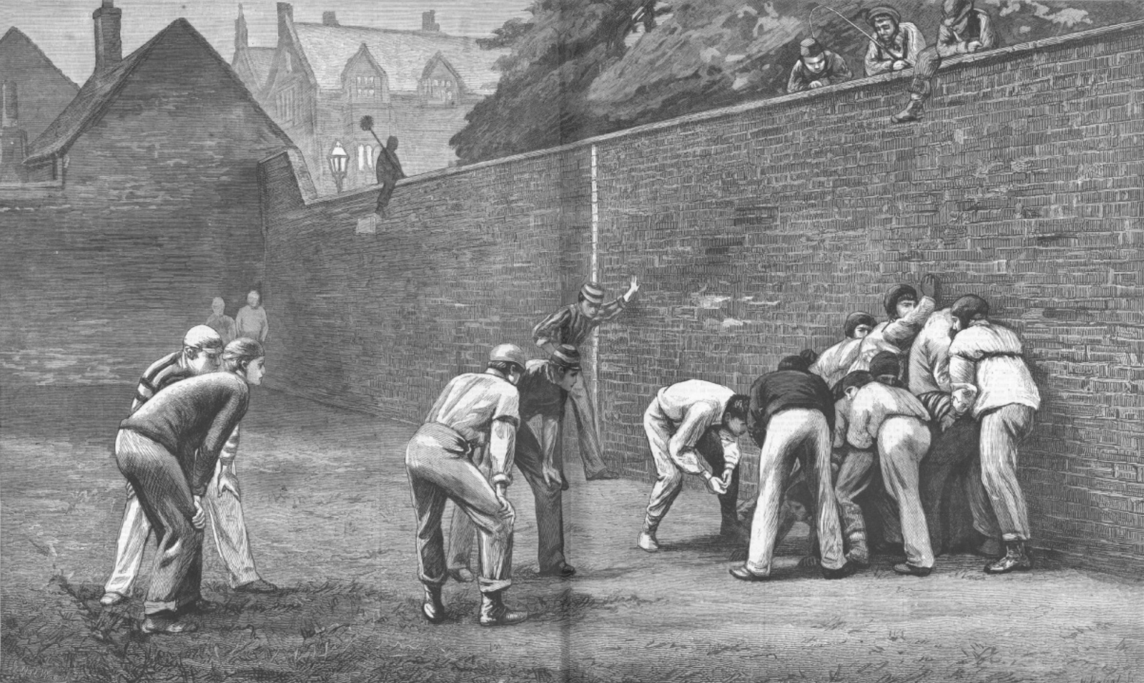 A bully formed just outside good calx in the Eton Wall Game (1876)